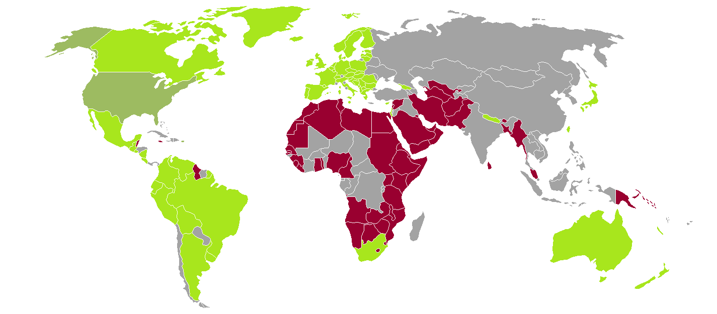 Anti-discrimination laws, Sexual orientaion, in the world. Anti-discrimination laws Varies by state Homosexuality illegal Unknown/Ambiguous